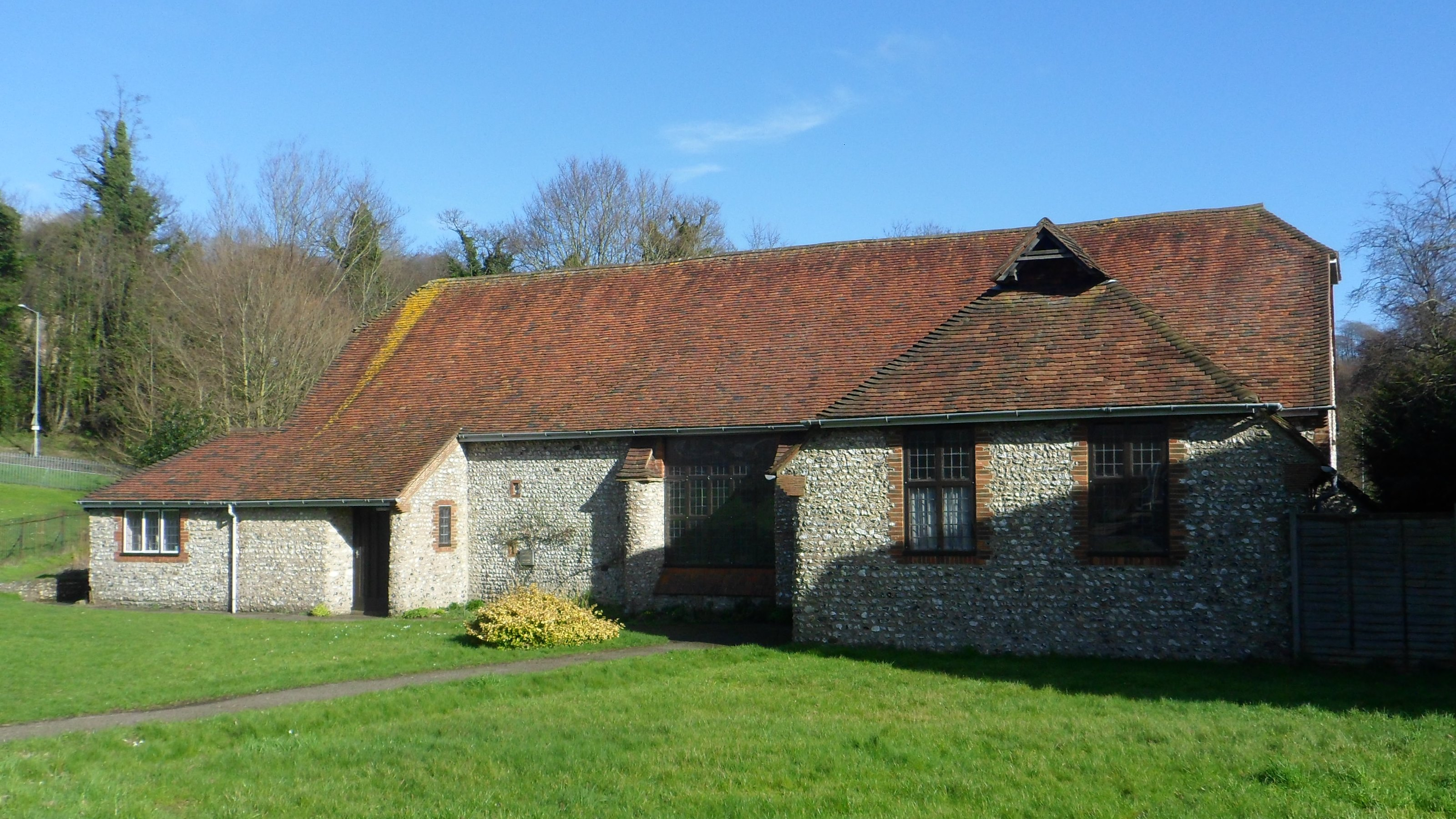 St Mary Magdalene's Church, Coldean Lane, Coldean, City of Brighton and Hove, England. This 18th-century barn was converted into an Anglican church in the 1950s, to serve the postwar Coldean housing estate.